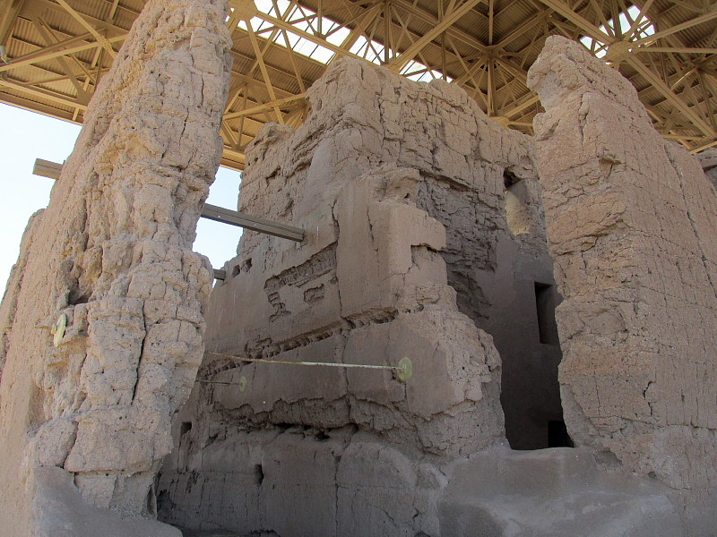 Big House interior walls, Casa Grande National Monument, Casa Grande National Monument Coolidge